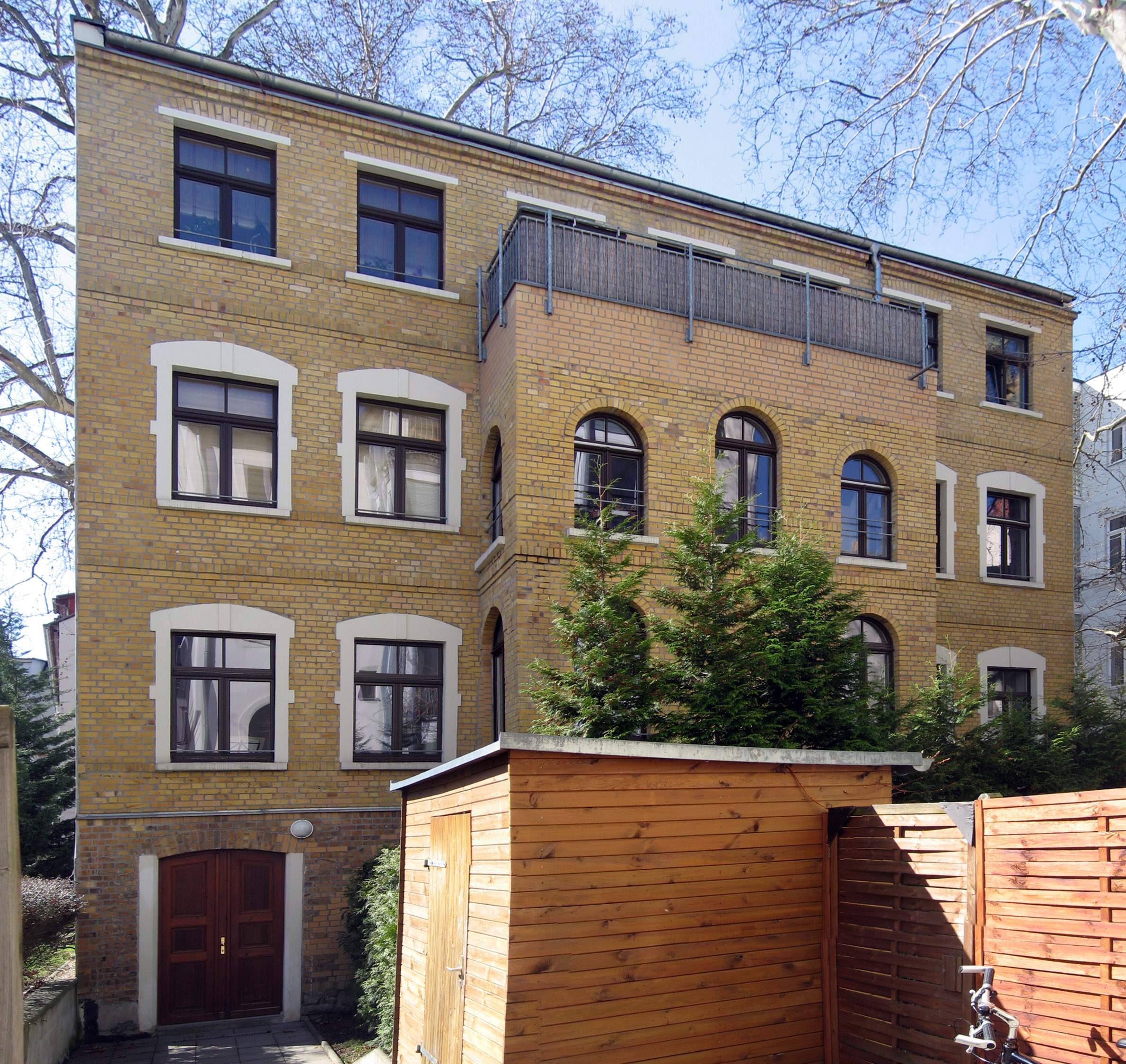 former Beth Yehuda Synagogue in Leipzig (“Ariowitsch Synagogue”), Faerberstrasse 11, court building